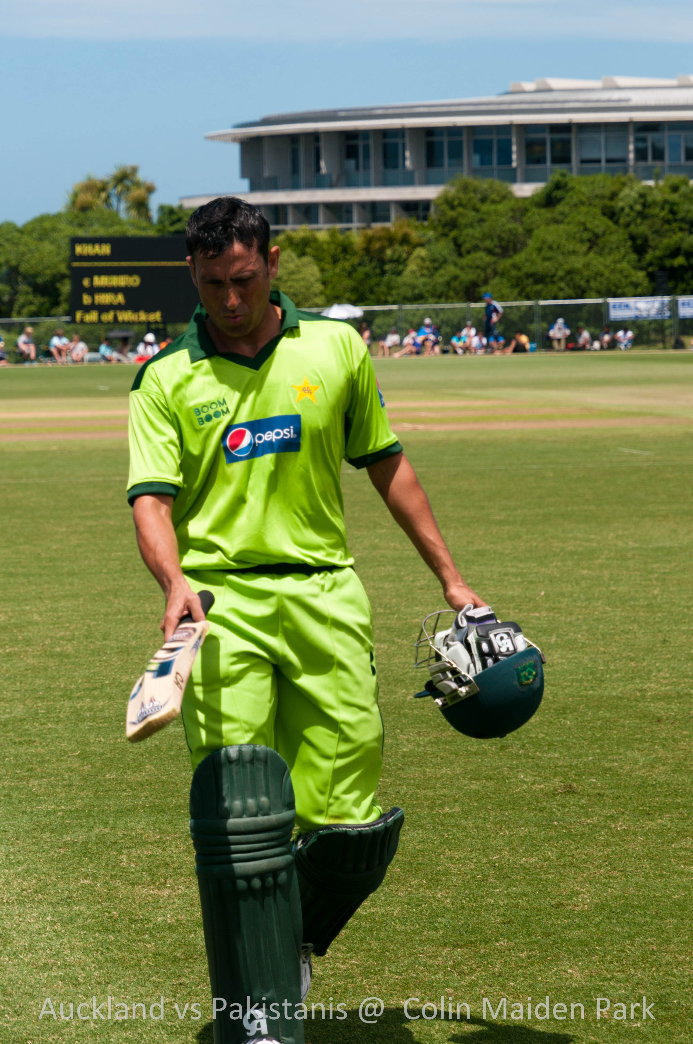 untitled